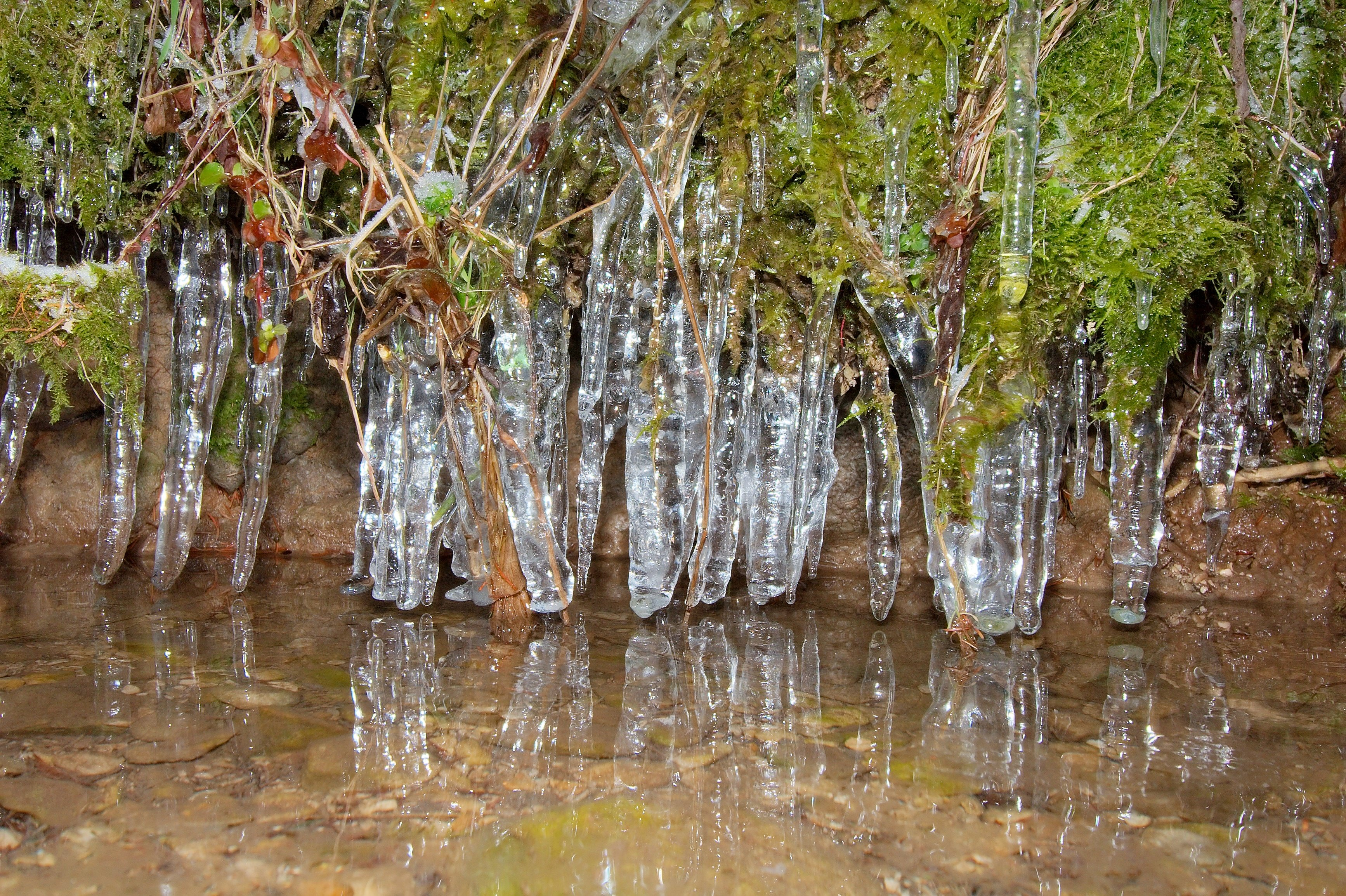 Icicles in a creek